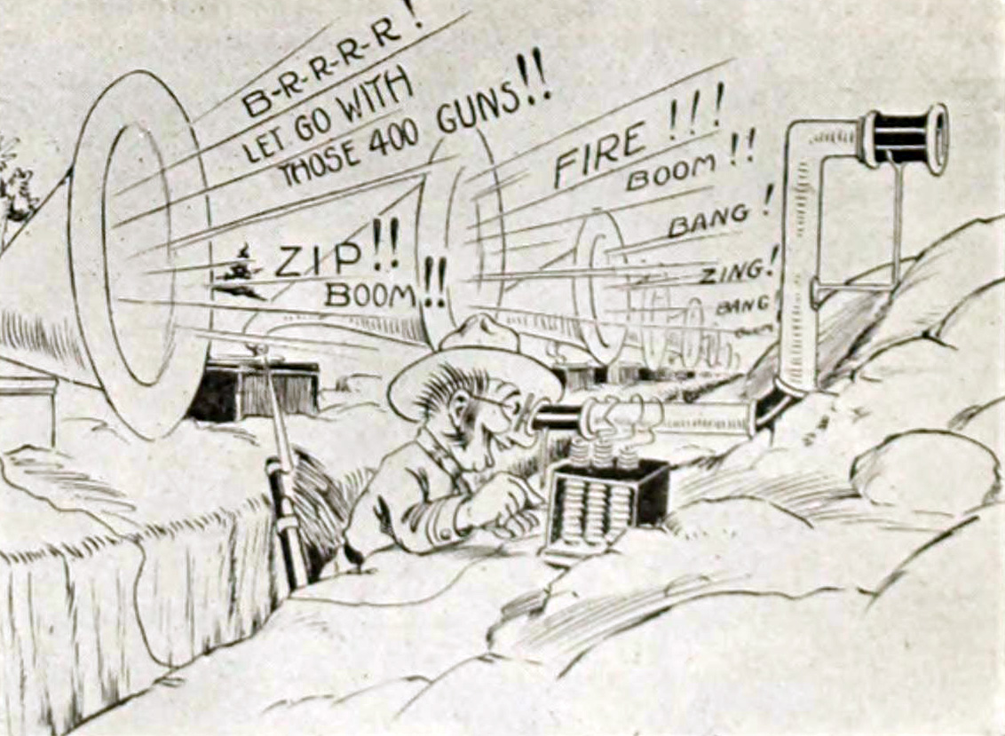 Illustration of an article in The Moving Picture World